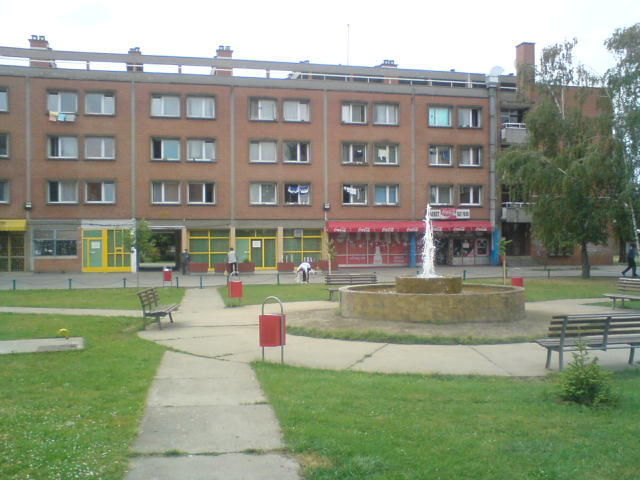 Dormitory "Slobodan_Bajić" in Campus of University in Novi Sad